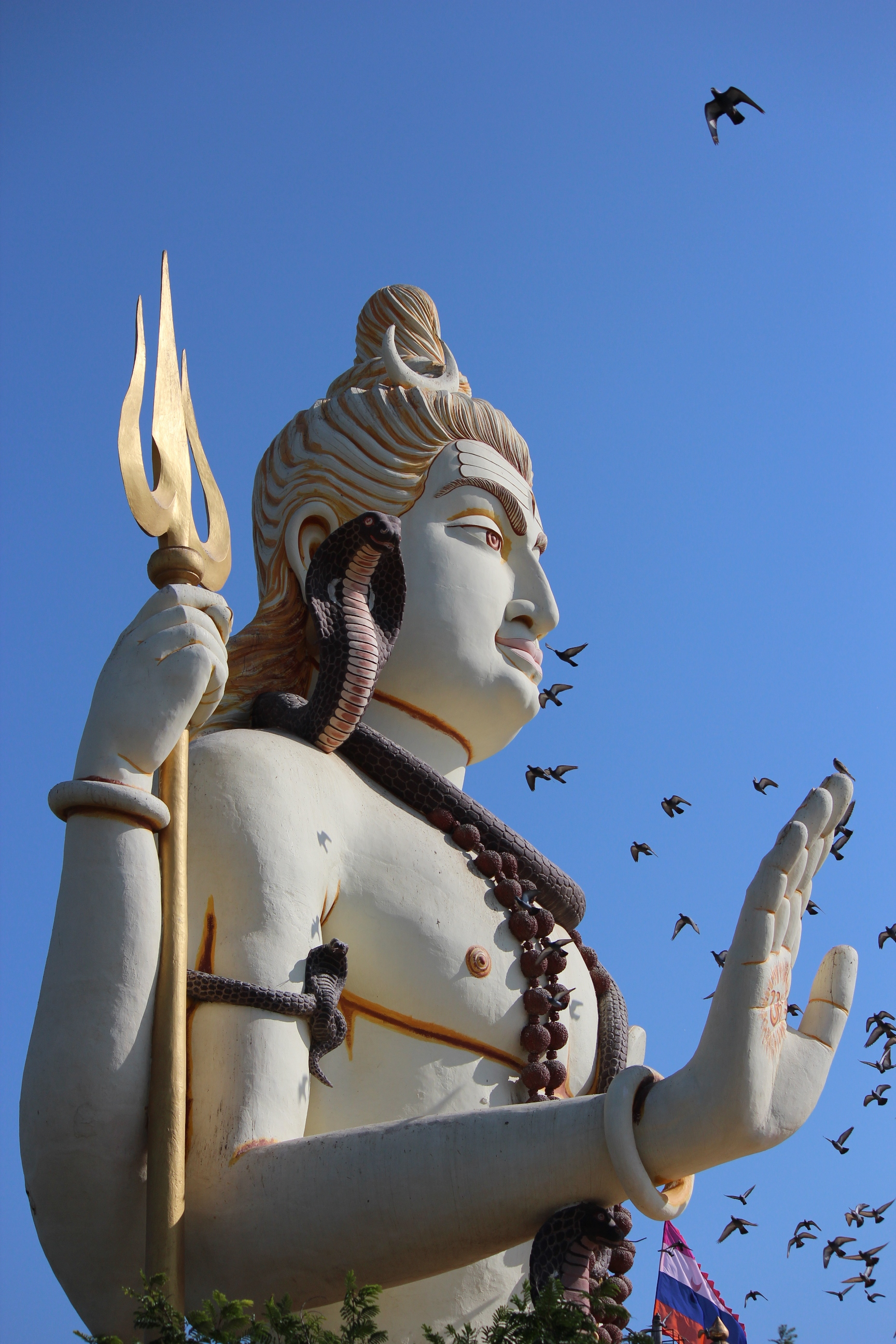 Statue of Lord Shiva / Mahadev outside of Nageshwar Jyotirlinga Temple.